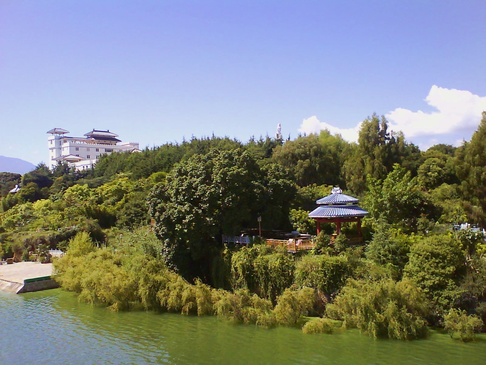 Nanzhao Folklore Island (南诏风情岛), Erhai Lake, Yunnan province, China